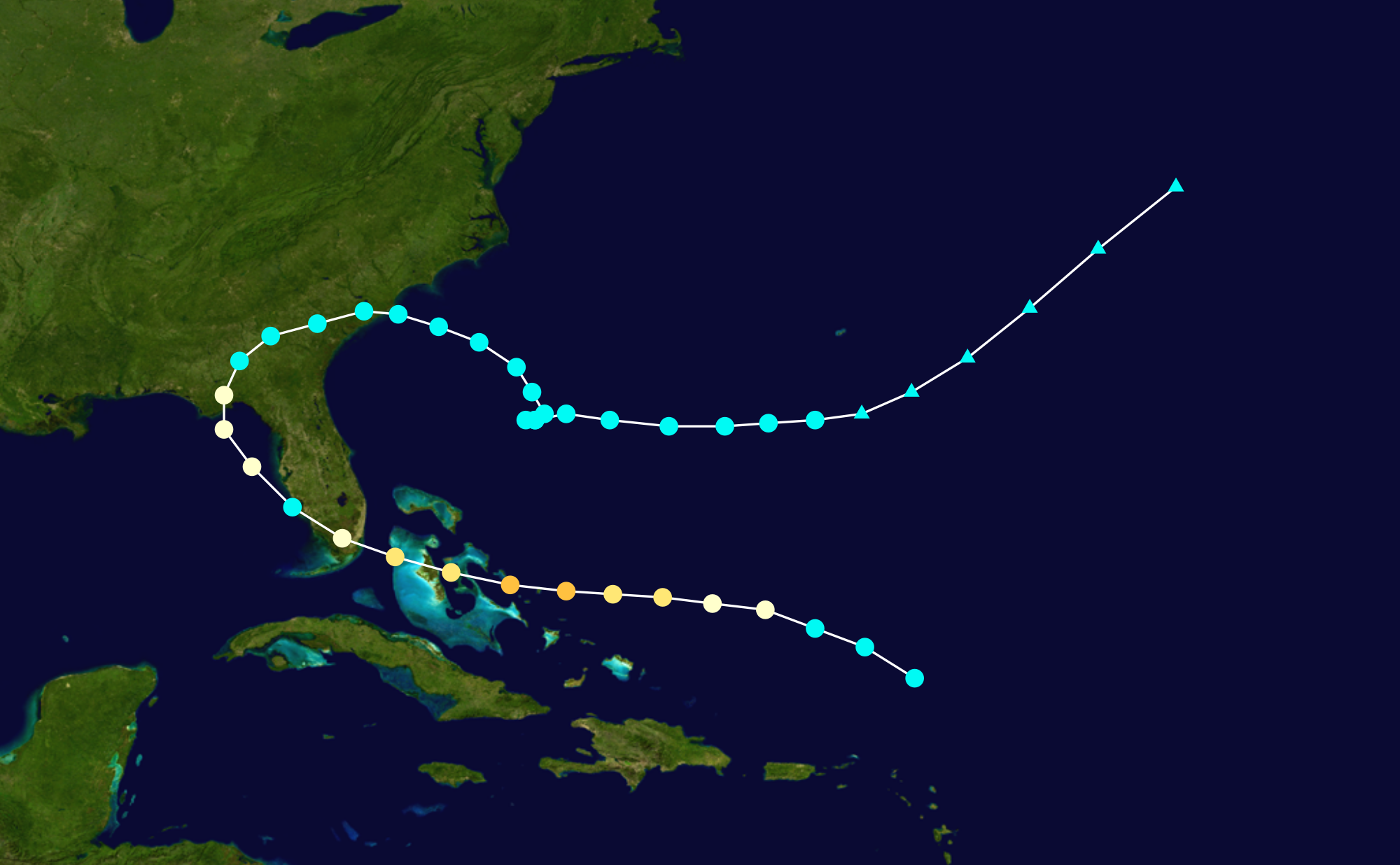 1941 Atlantic hurricane 5 track. Uses the color scheme from the Saffir-Simpson Hurricane Scale.